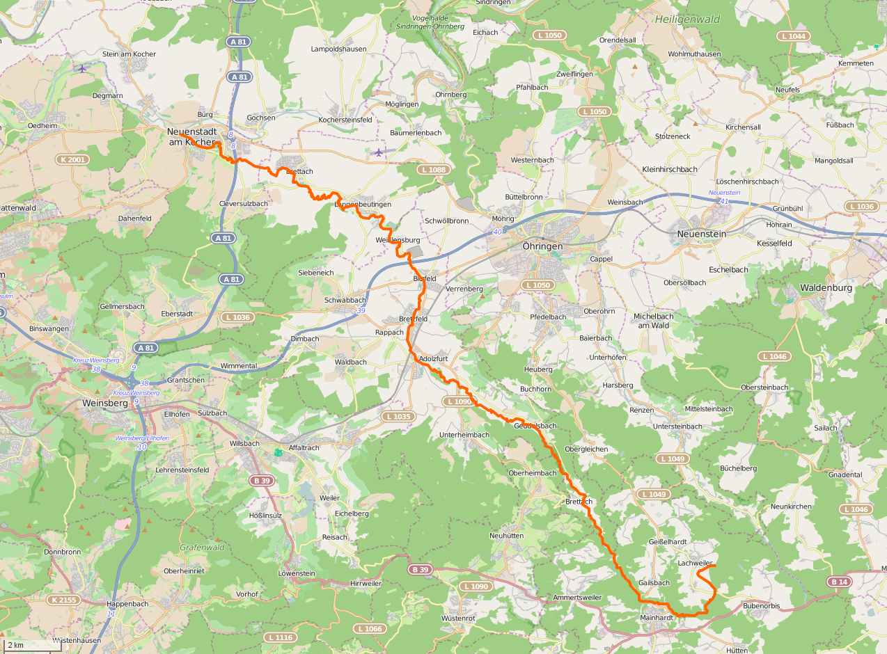 Brettach stream This map may be incomplete, and may contain errors. Don't rely solely on it for navigation.